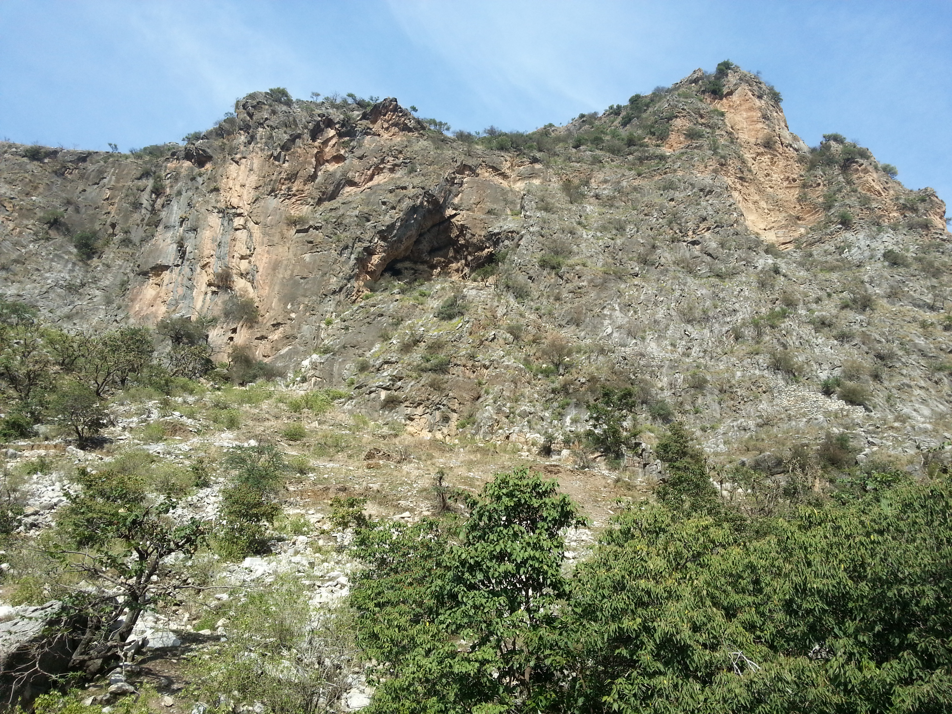 Kasmir Samast This is a photo of a monument in Pakistan identified as the KPK-39